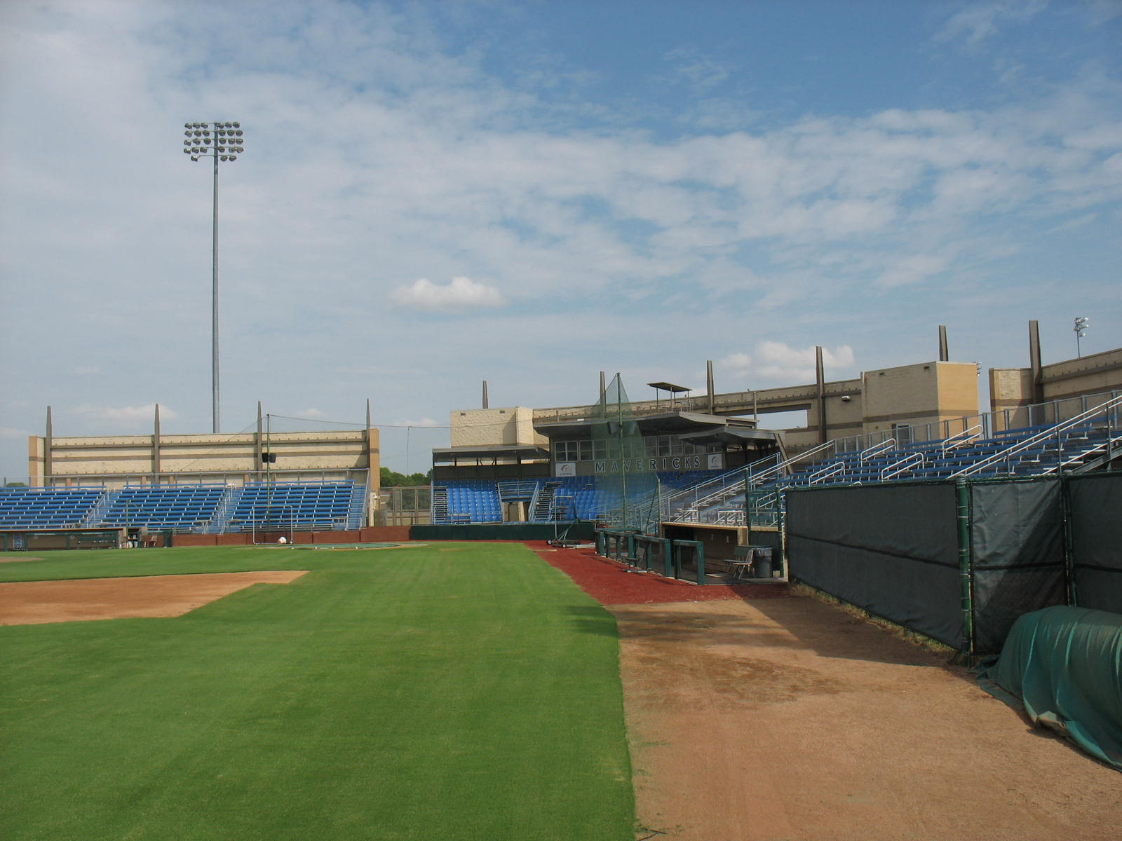 The interior of Clay Gould Ballpark, taken from the leftfield line.